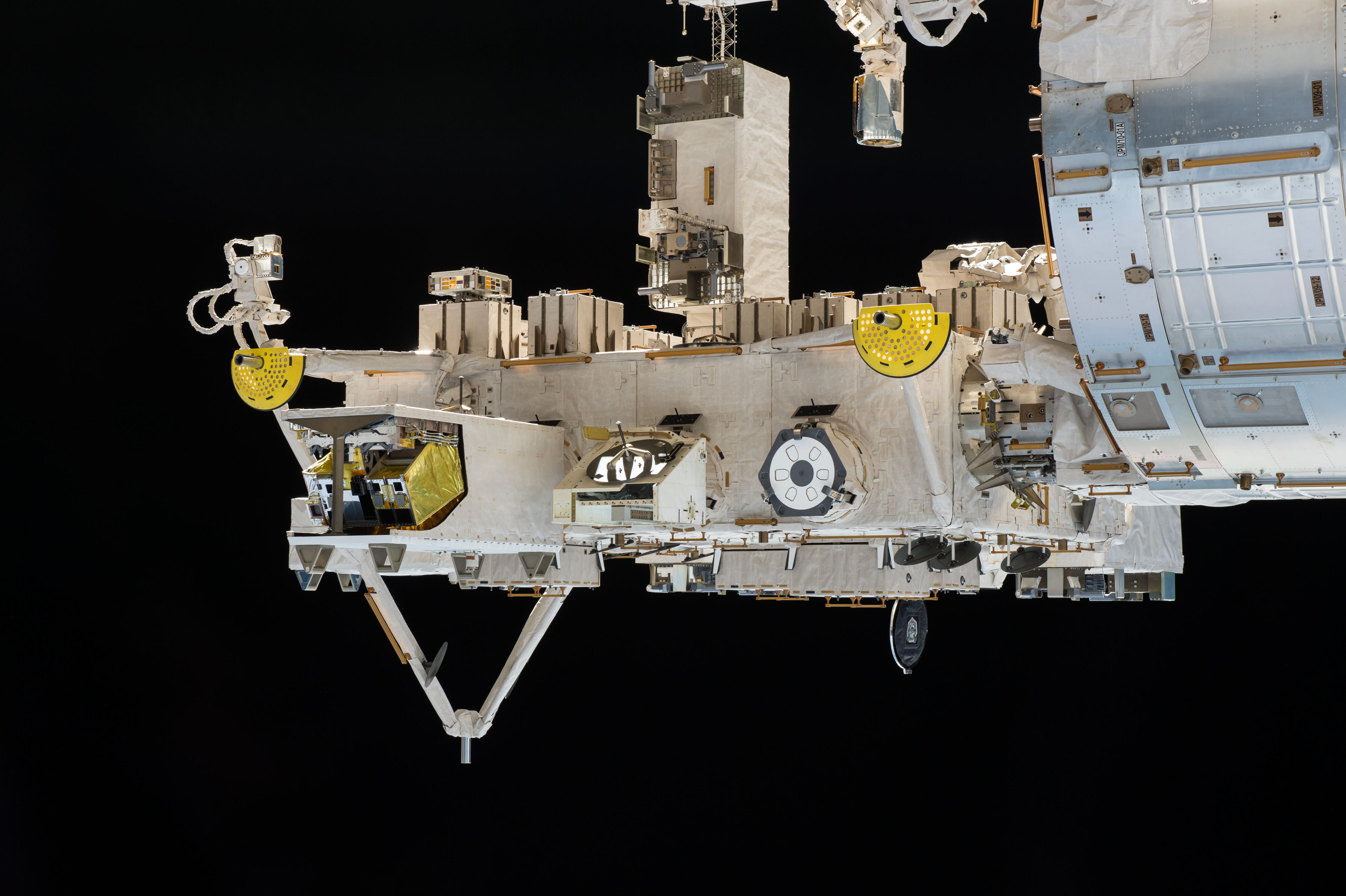 Photograph of the Japanese Experiment Module Exposed Facility on ISS during Expedition 50.